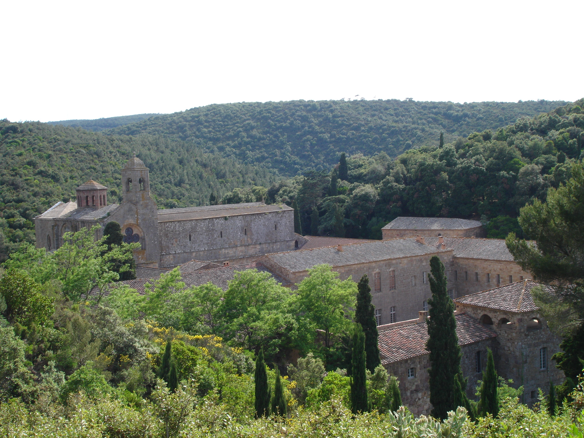 France, Aude, Fontfroide Abbey